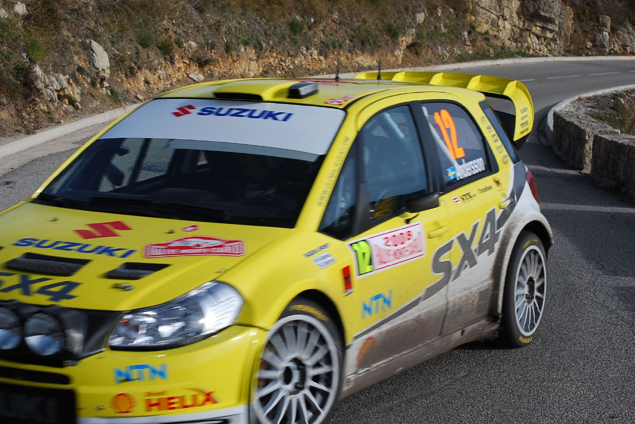 Per-Gunnar Andersson driving his Suzuki SX4 WRC on a road section during the 2008 Monte Carlo Rally.